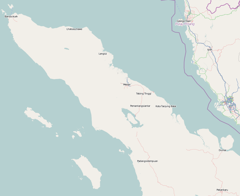 Map of Northern Sumatra, Indonesia Geographic limits of the map: N: 6.02° S: 0.35° W: 94.99° E: 101.96°